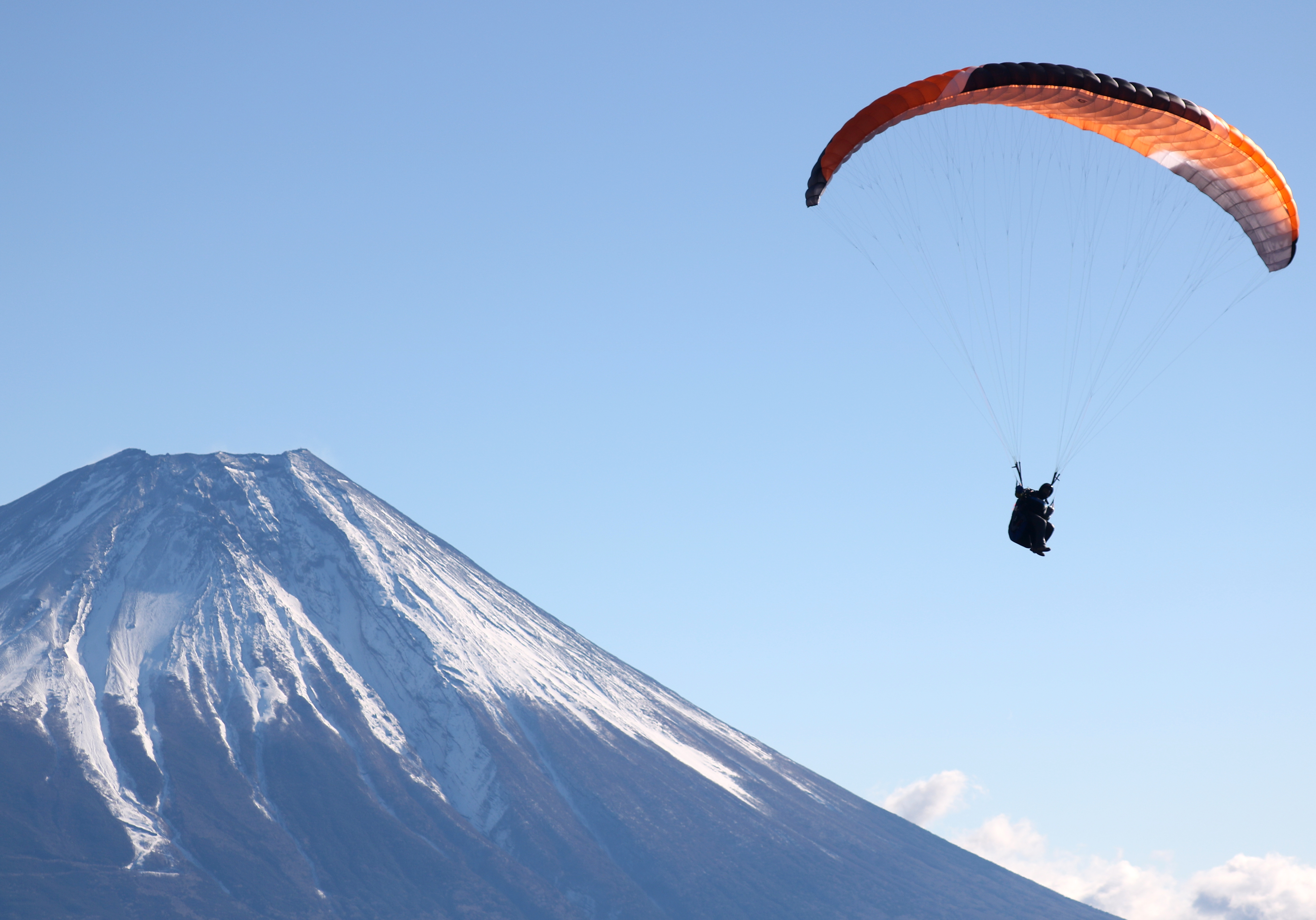 Paragliding with Mount Fuji seen from Mount Kenashi in Fujinomiya, Shizuoka Prefecture, Japan. Canon EOS Kiss X8i